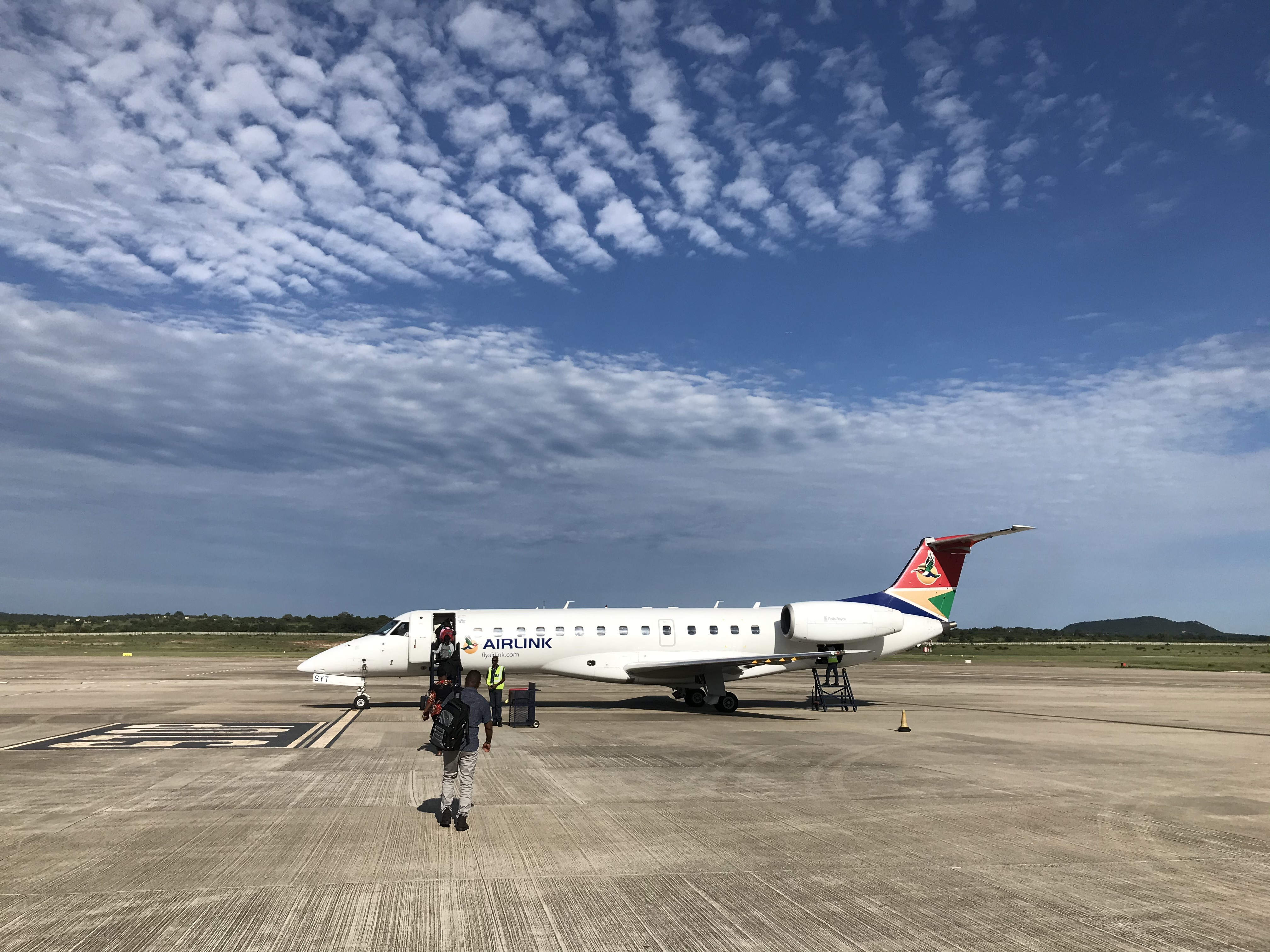 SA Airlink Embraer jet waiting for passengers to board at King Mswati 3rd International Airport. First flight of the morning with beautiful light clouds overhead This is an image with the theme "Africa on the Move or Transport" from: Eswatini